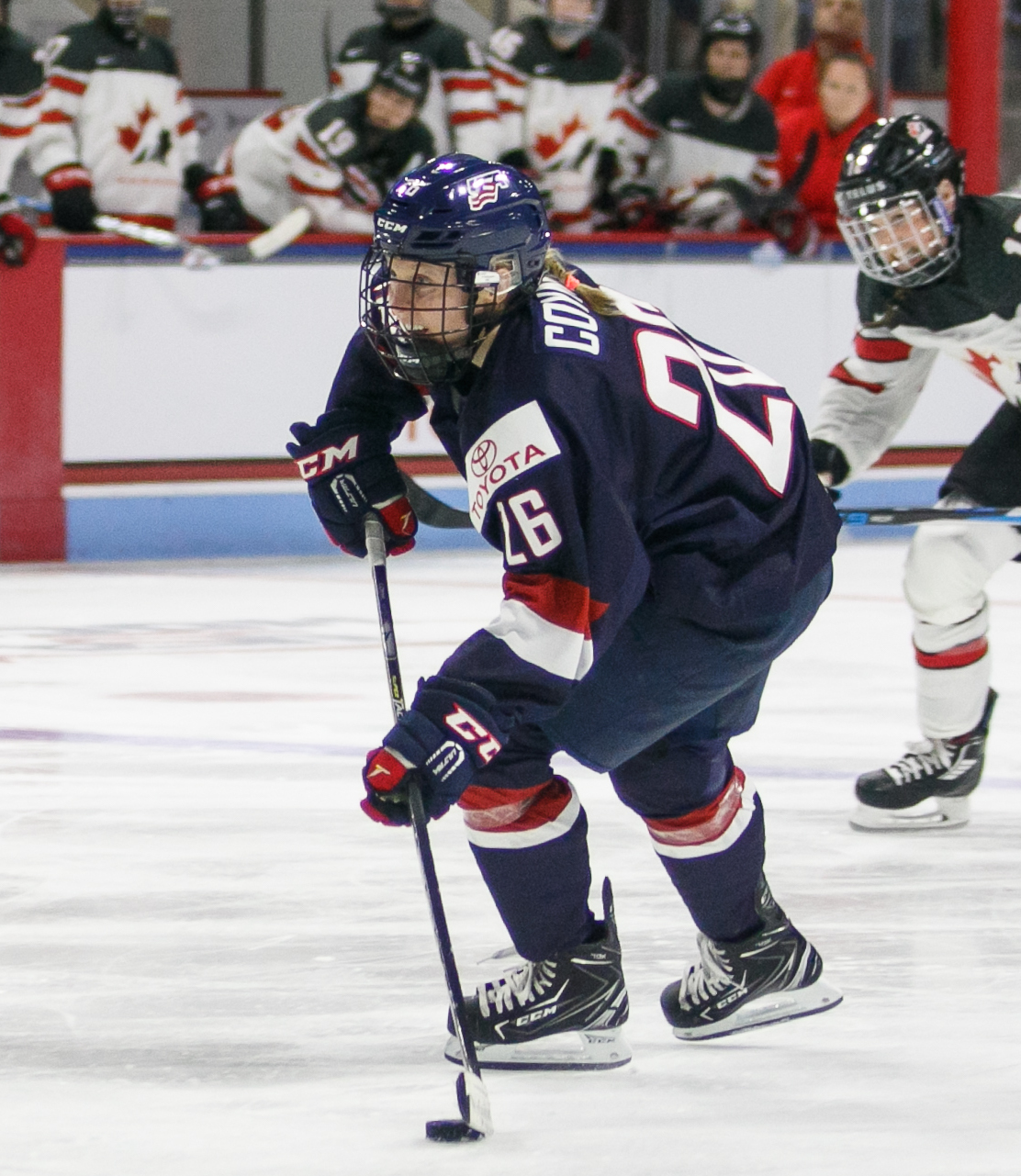 Team USA forward Kendall Coyne (26)